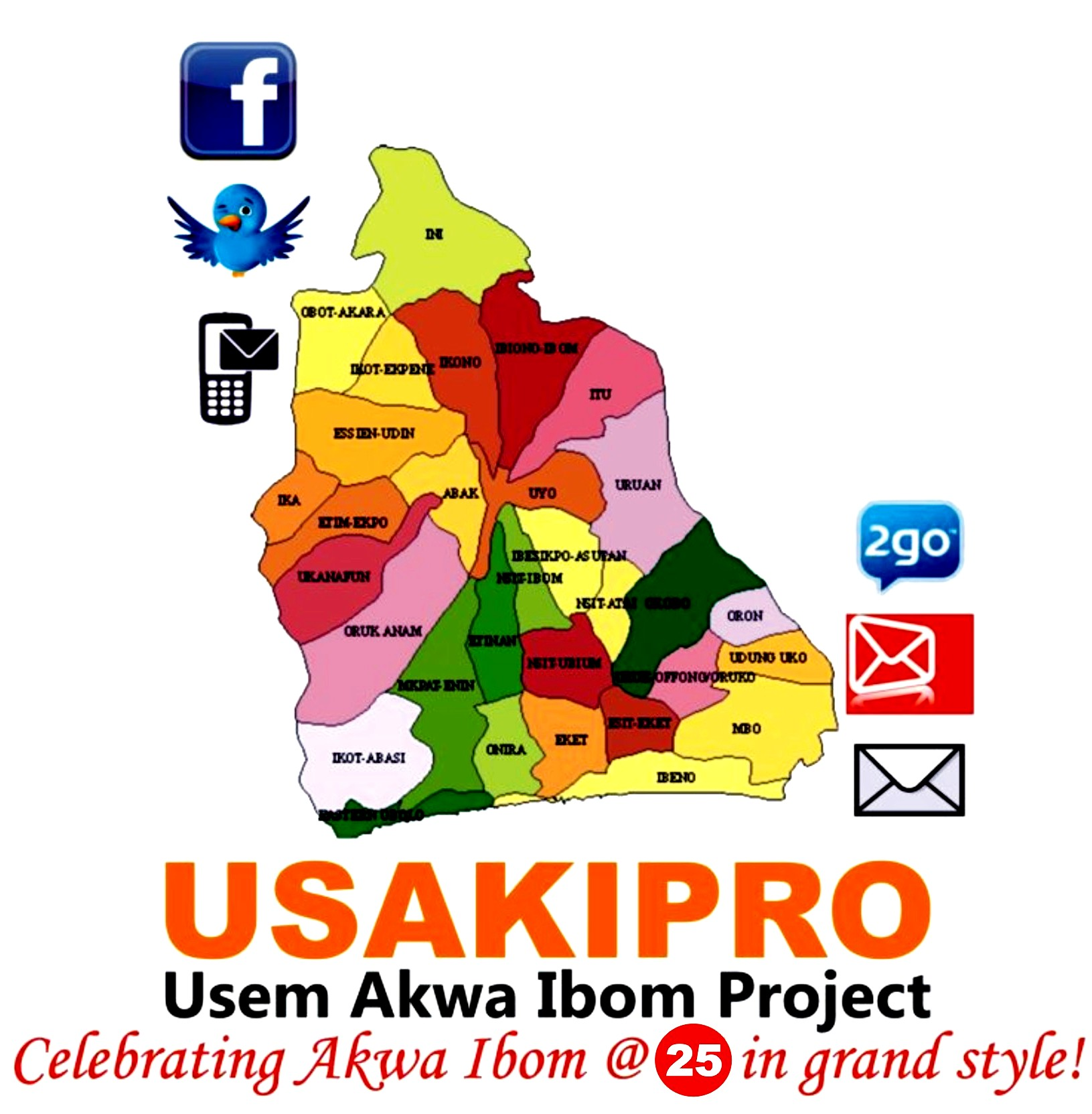 Akwa Ibom State will celebrates its creation anniversary every 23rd of September. Akwaibomites at home and in the Diaspora usually mark this day in grand style! To commemorate this day, every 2go, Facebook, Twitter, MySpace, SMS, Email or Comments we make is in our native dialects. If you are Ibibio, wed k’usem Ibibio; Annang? Wed k’usem Annang; Eket? Sem k’ikwo Ekid? Oro? Suguku nsinge Oro! The Objective of this online event is : To celebrate Akwa Ibom State's anniversary in a unique way, create awareness about the different ethnic accents that exist in Akwa Ibom State and also, to show how young people are utilizing the power of social networking platforms like Facebook to inspire positive change in our communities thus fostering peaceful co-existence, unity and love among our people. Not a member yet? Click to join! More info can be found on